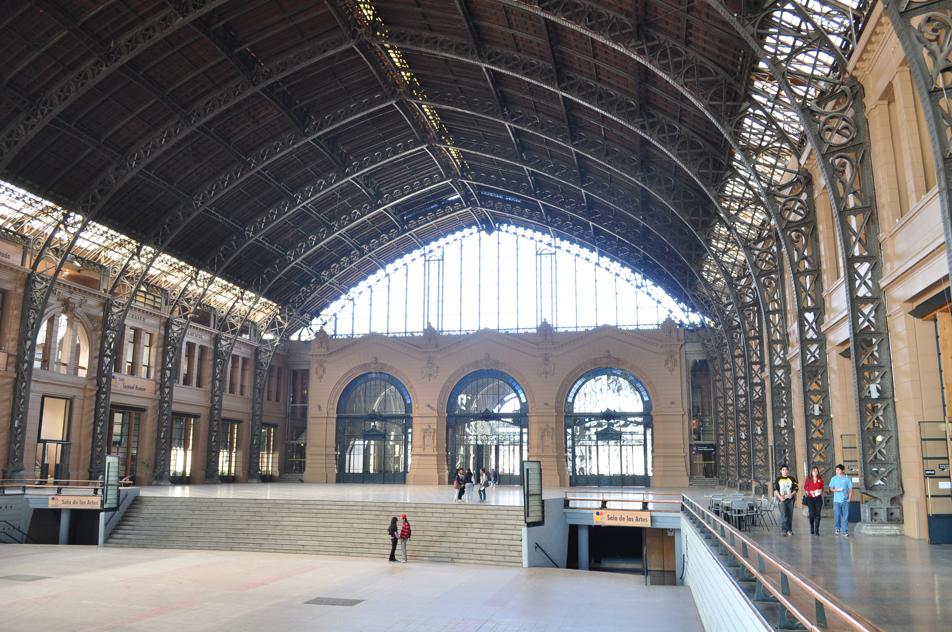 This is a photo of a national monument in Chile: 831